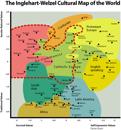 An Inglehart-Welzel Cultural Map of the World: World Secular-Rational and Self Expression Values as a map of world cultures based on World Values Survey data – survey wave 4, finalised 2004.; data is also available in the doc file at [1]